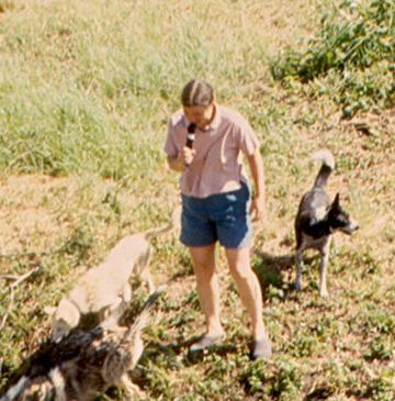 Susan Butcher talking to tourists on the river boat Discovery.